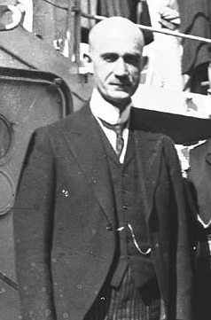 File name: 00024904Title: Dr Rudolf Asmis and Captain Otto Schniewind on board the German cruiser KÖLN.Date issued: 1933-05Physical description: 1 negative : glass, black & whiteGenre: Glass negativesSubject: Sydney Harbour; German cruiser KÖLNNotes: Title from information provided by the Australian National Maritime Museum on the negative or negative sleeve. Date supplied by cataloger.Collection: Samuel J. Hood Studio collectionLocation: Australian National Maritime Museum’s